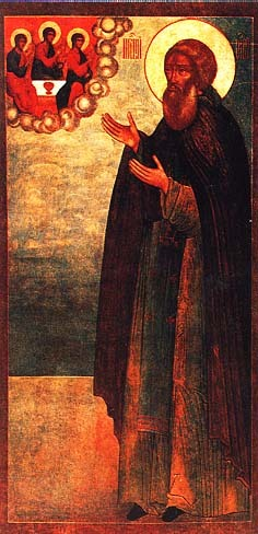 Saint Paisius the Great